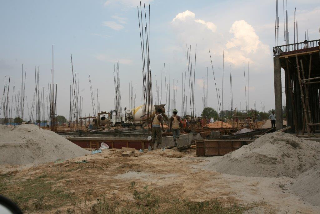 Vrindavan Chandrodaya Mandir Underconstruction